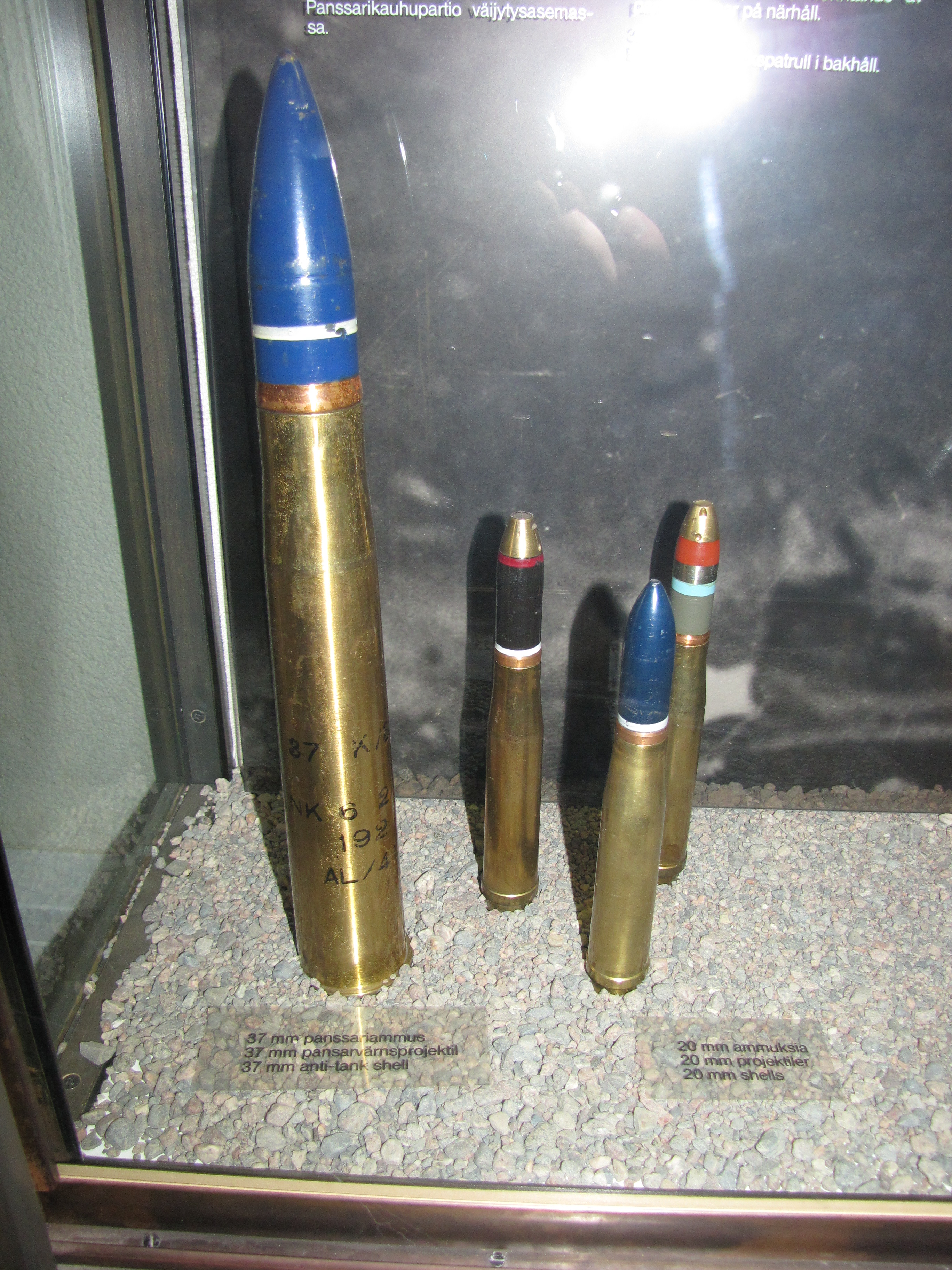 A 37 mm anti-tank shell and three 20 x 138B shells in Manege Military Museum. The 20x138B shells are: Left: Finnish HE-T cartridge from 1941-1944, intended as an anti-materiel shell for Lahti L-39 anti-tank rifle. Finnish designation "20 tkrv-Vj2", 20 mm trotyl shell, old type, 2 second tracer. Center: Finnish solid steel AP-T cartridge from 1941-1942. Finnish designation "20 psav-Vj4", 20 mm armour piercing shell, old type, 4 second tracer. Right: Italian HE-T (SD) anti-aircraft cartridge with self-destruct purchased 1939-1940. Finnish designation "20 ittkrv Vj5", 20 mm anti-aircraft trotyl shell, old type, 5,5 second tracer.